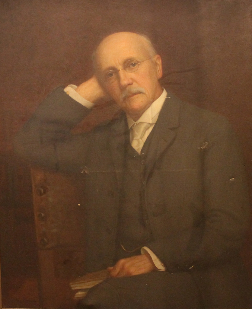 Portrait of James Morgan Hart (1839-1916), Professor of Modern Languages and Professor of English at Cornell University